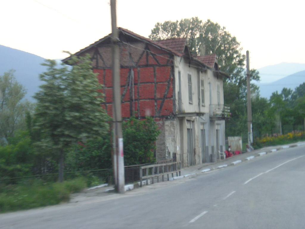 Picture of a house in village Belimel, Bulgaria